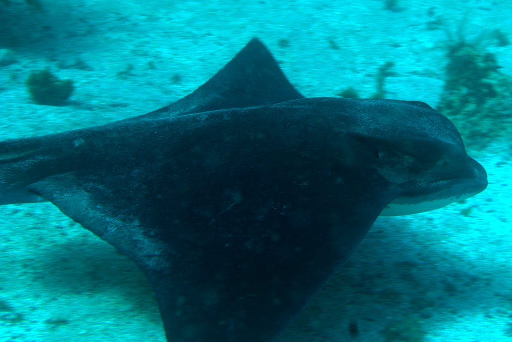 Bat ray (Myliobatis californica) at the Channel Islands, California.